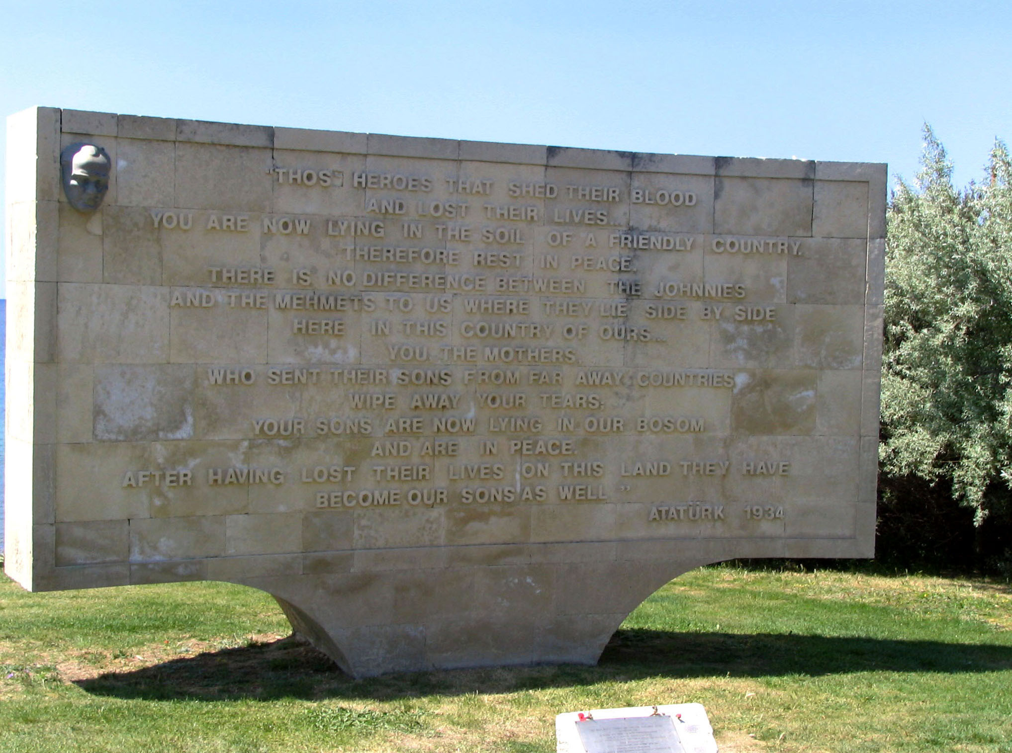 Ari Burnu Memorial, Anzac Cove, Turkey. May 2006. Photo by Winstonza talk